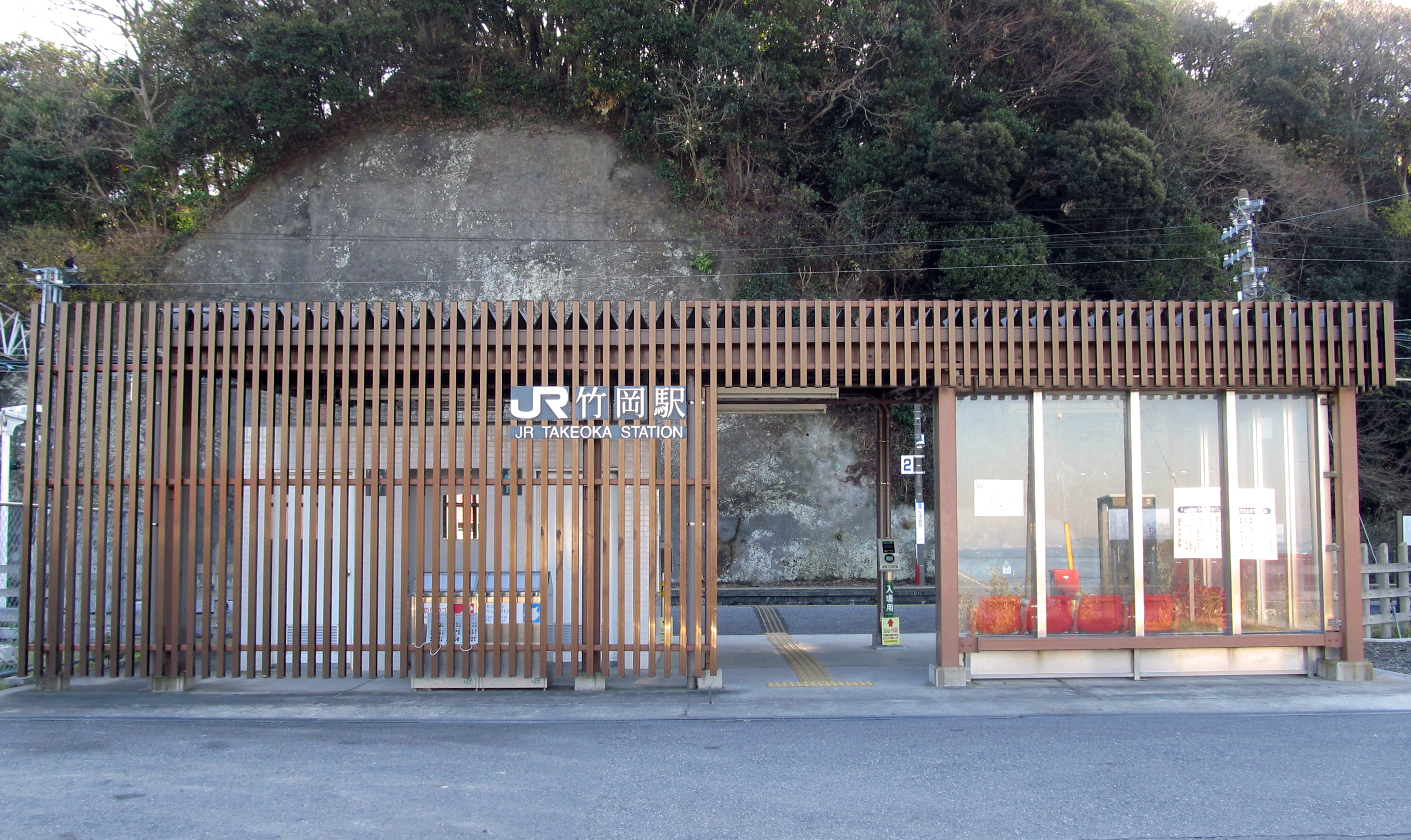 The building of Takeoka Station on the Uchibō Line in Futtsu city, Chiba prefecture, Japan